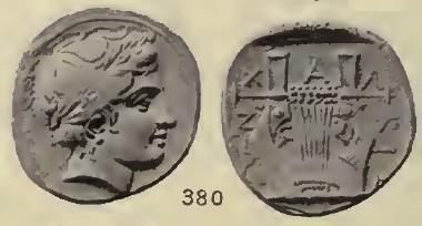 Greek coins and their parent cities (1902) Author: Ward, John, 1832-1912; Hill, George Francis, Sir, 1867-1948 Subject: Coins, Greek; Numismatics, Greek; Greece -- Description, geography; Italy -- Description and travel; Turkey -- Description and travel Publisher: London : Murray Possible copyright status: NOT_IN_COPYRIGHT Language: English Call number: AKB-0671 Digitizing sponsor: MSN Book contributor: Robarts - University of Toronto Collection: toronto Scanfactors: 7